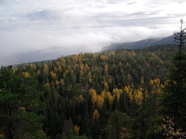 A mixed forest (Picea abies, Betula pubescens) in Koli National Park, Finland.